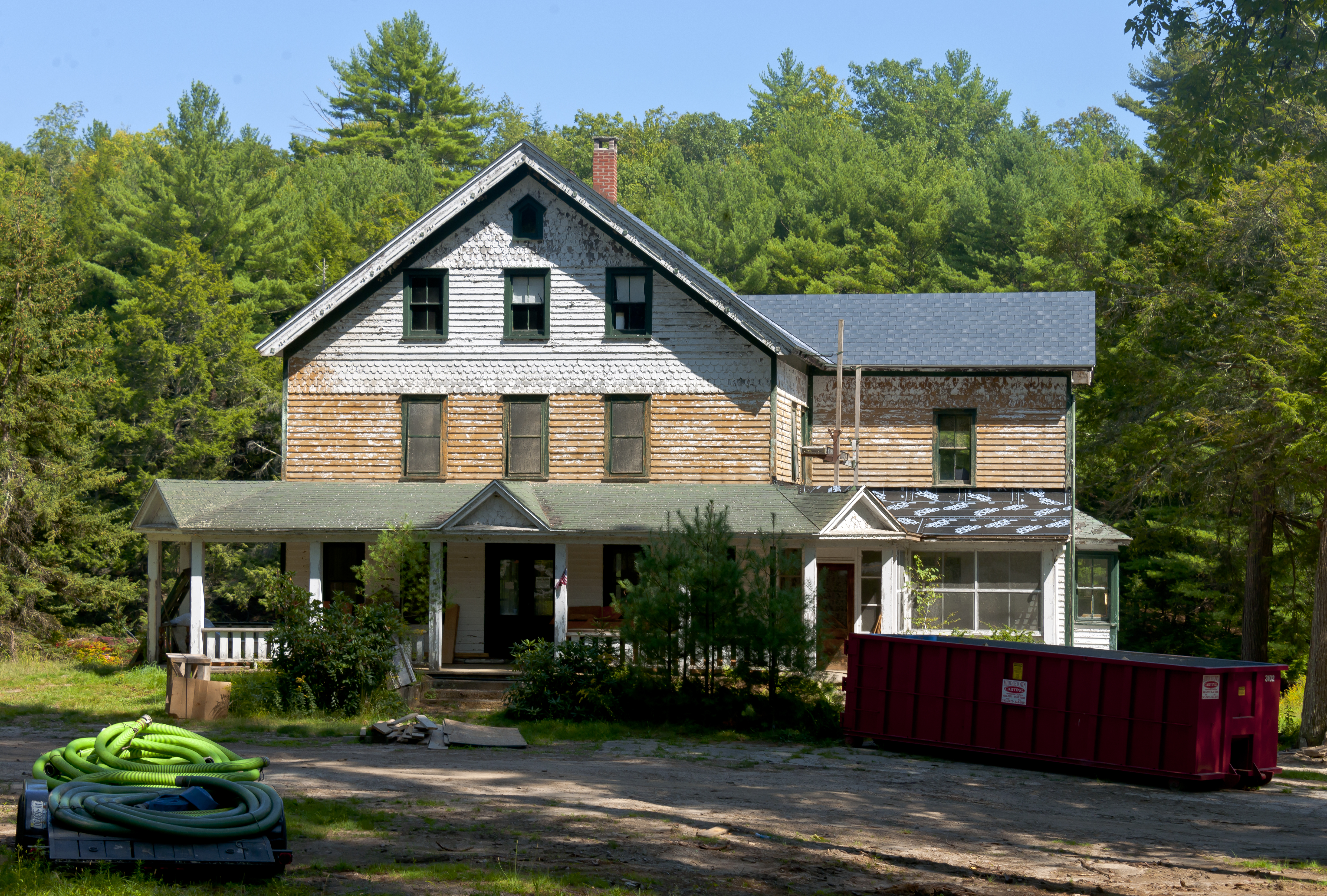 Main building at former Cottage in the Pines boardinghouse complex, Rio, NY, USA.